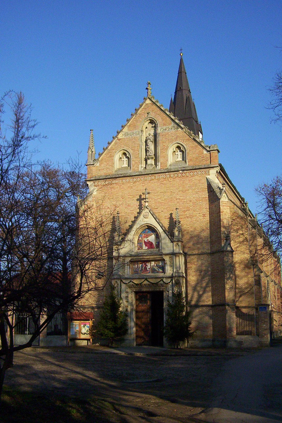 Giovanni da Capistrano church in Ilok